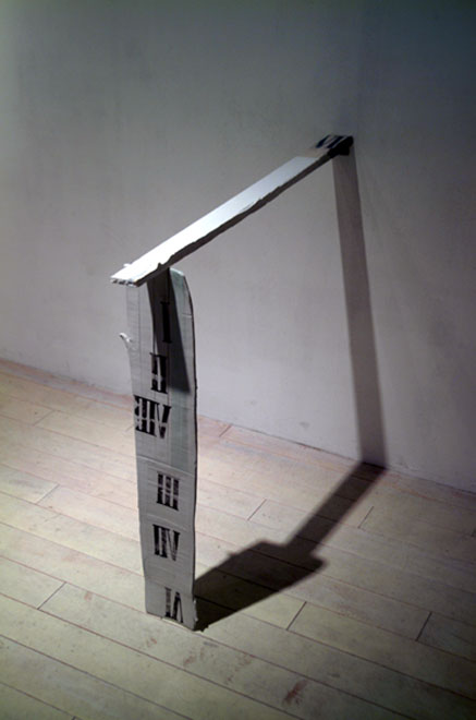 磁器オブジェ